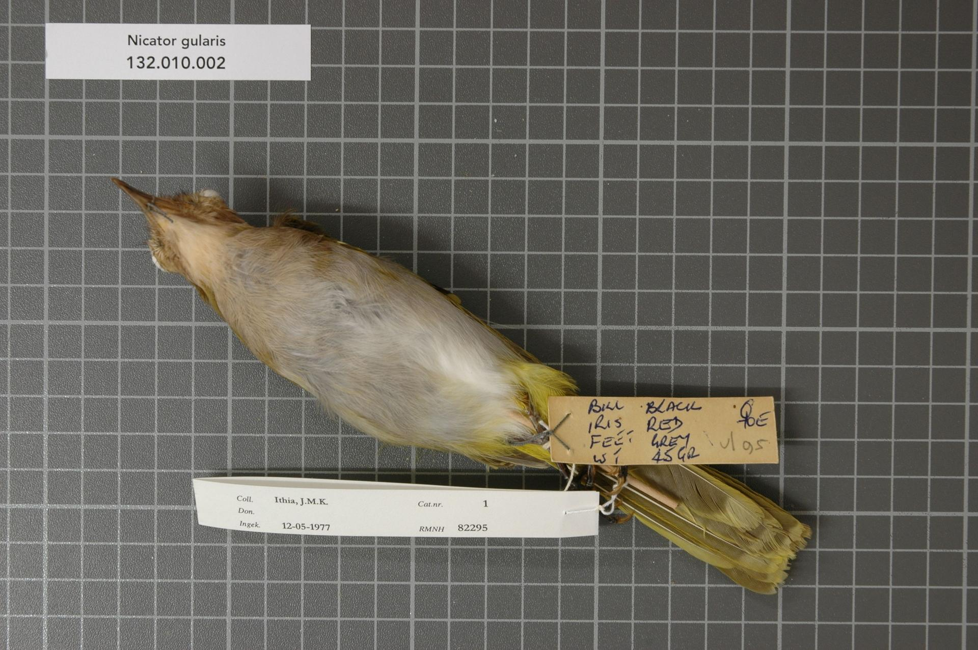 Nicator gularis Hartlaub and Finsch, 1870